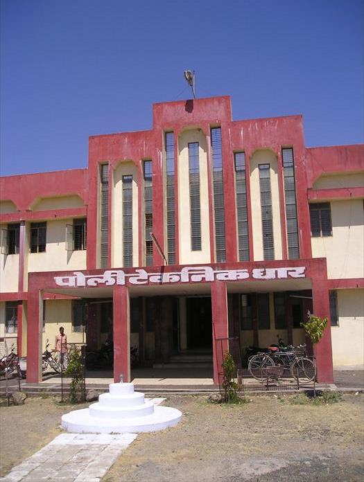 College Main Gate